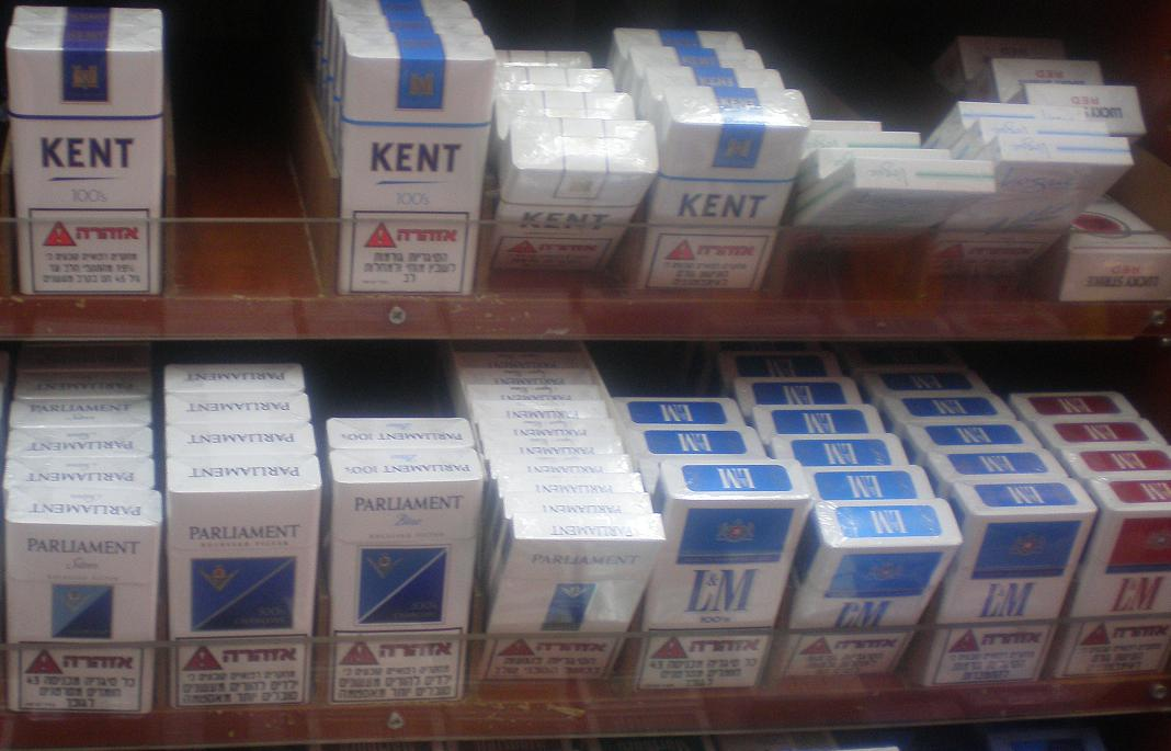 Cigarettes sold in Israel